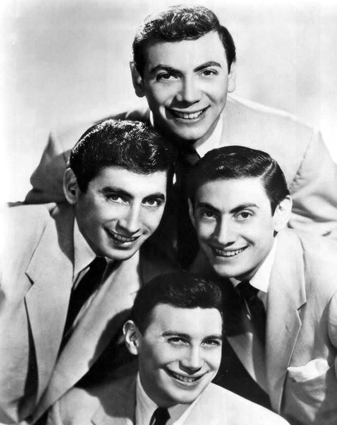 Publicity photo of the singing quartet the Ames Brothers. One of its members (seen at top) is actor Ed Ames, who was also well-known for his role in the television series Daniel Boone. Ed Ames went into television after the breakup of the group, who were actually brothers.